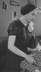 Elvita Solan-actriz